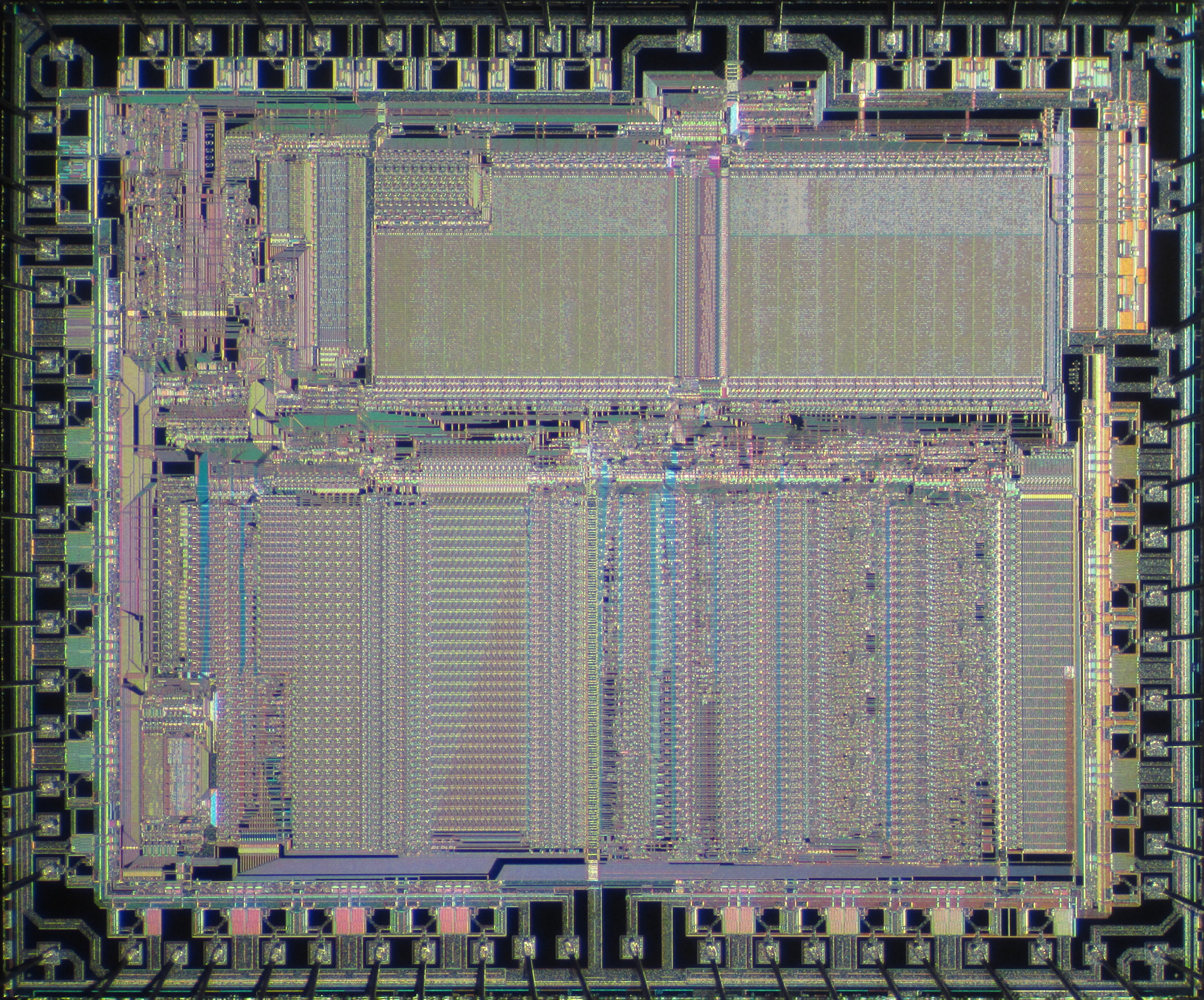 Die shot of Motorola 68881 math coprocessor (MC68881RC16B, 1B81G mask).